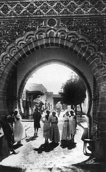 Historical photographs of Moroccan women.